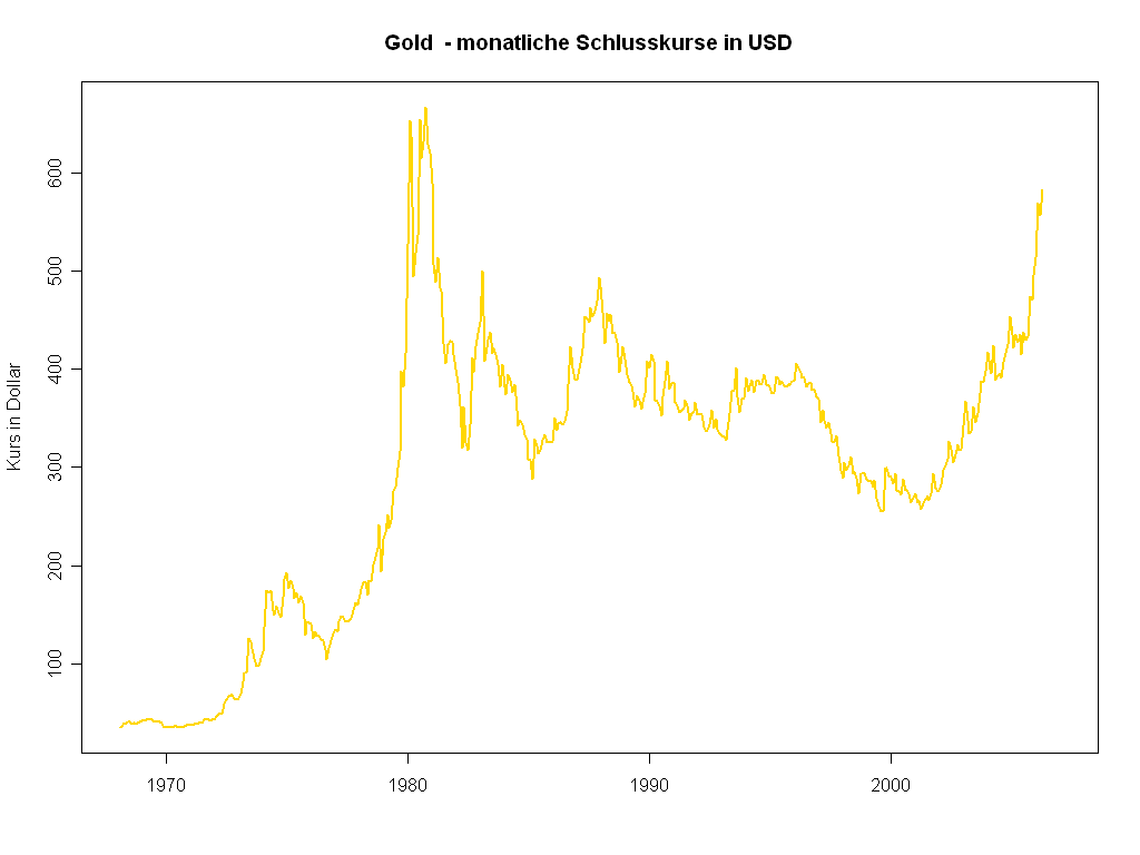 close-notation of gold in usd